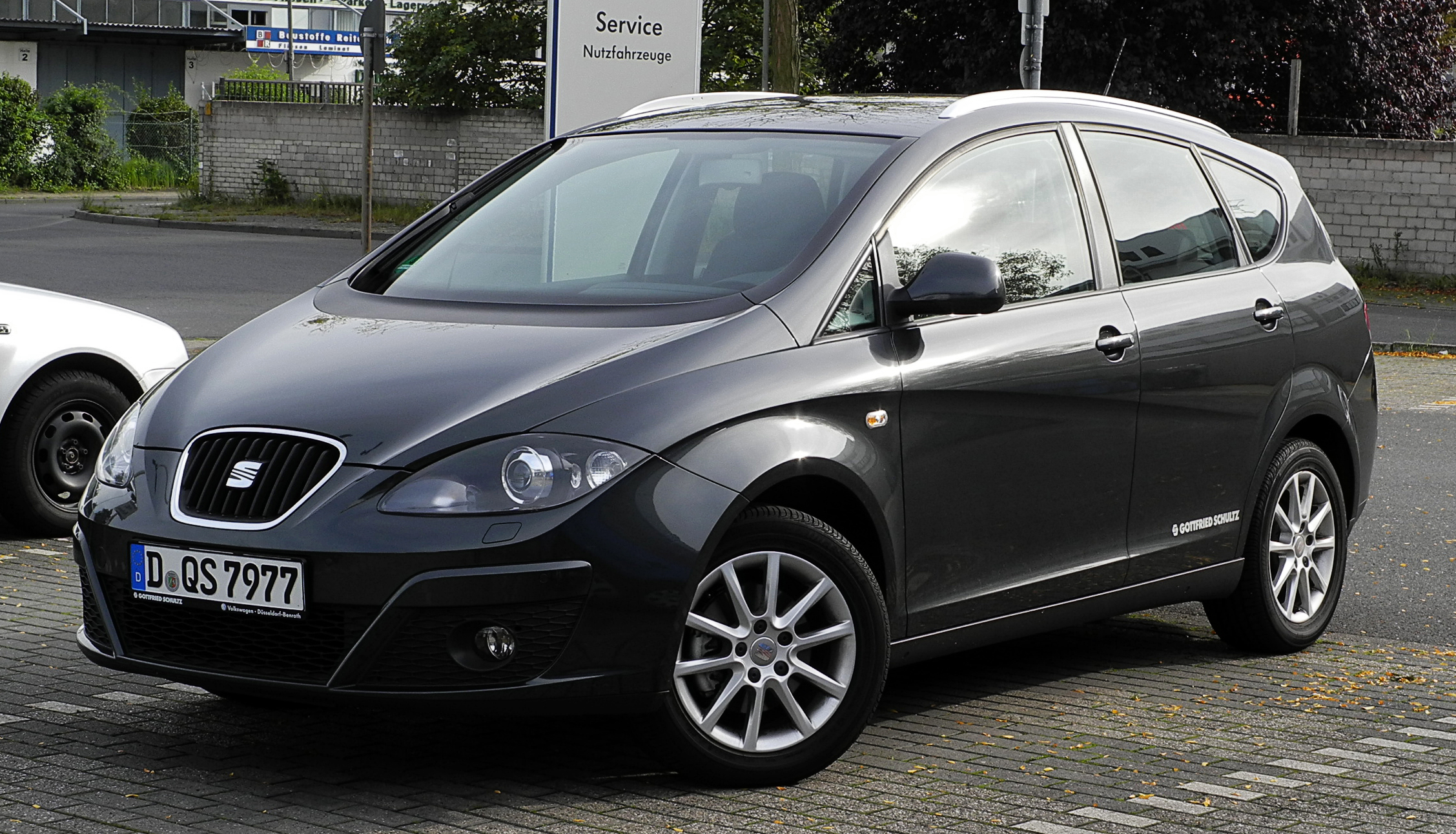 Seat Altea XL Kombi 1.6 TDI Style (Facelift)